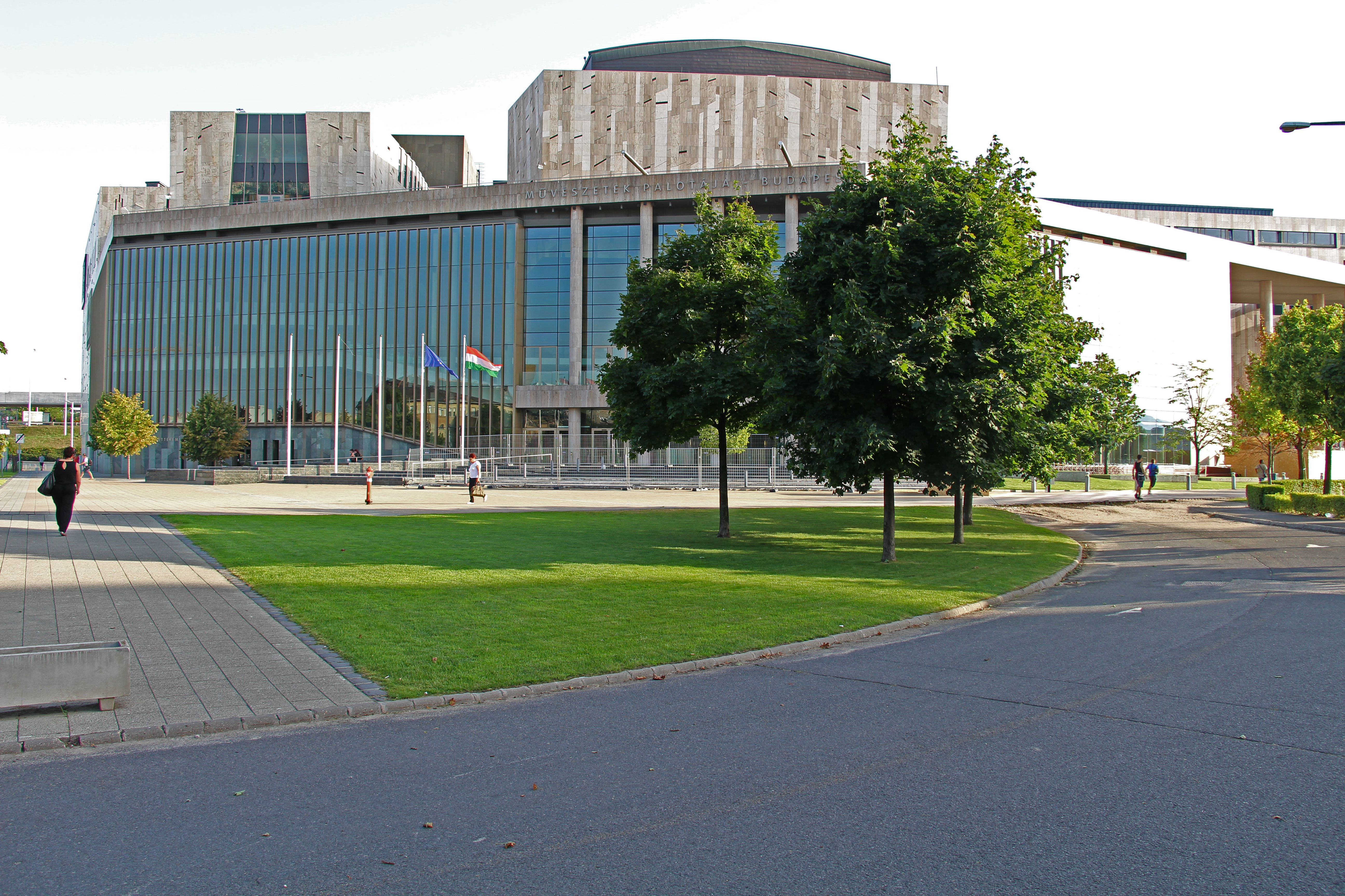 Ferencváros. Komor Marcell útca The Müpa, formerly Palace of Arts, is the youngest, most demanding multifunctional cultural facility in Budapest. It consists of three main units. The central part is the Béla Bartók National Concert Hall, the eastern side houses the Festival Theater, and on the western side of the Danube, the exhibition and presentation rooms of the Ludwig Museum have been placed. Arch. Gábor Zoboki & Demeter and Partners Architects 2002-05